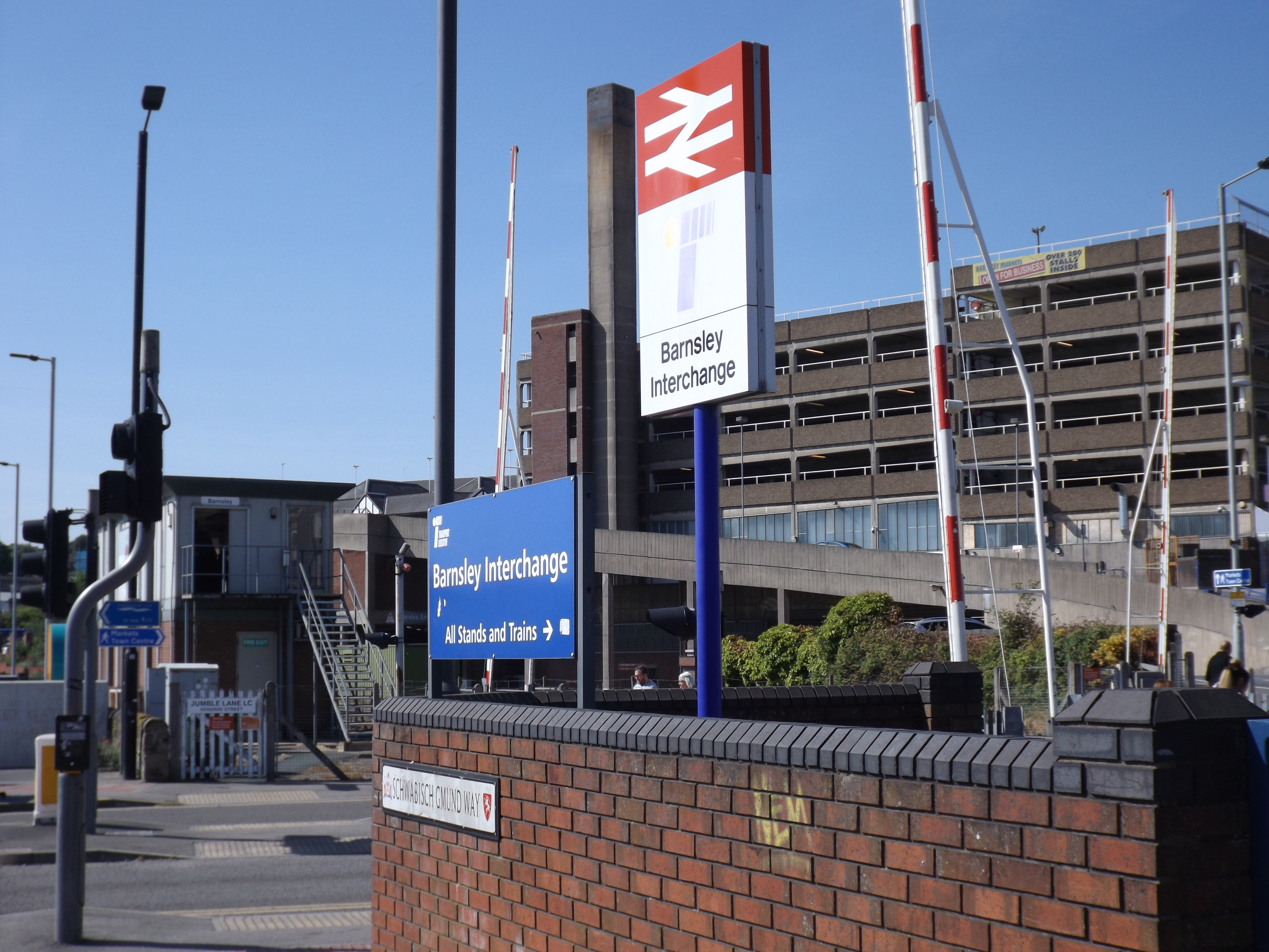 Station sign at Barnsley Interchange, South Yorkshire, England.